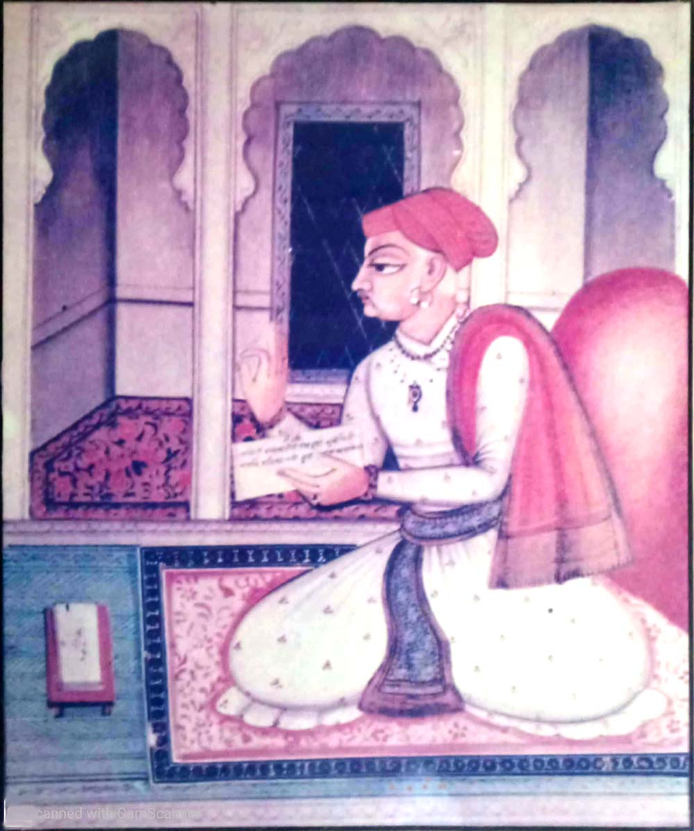 Picture of 16/17th Century Scholar, writer, Preacher